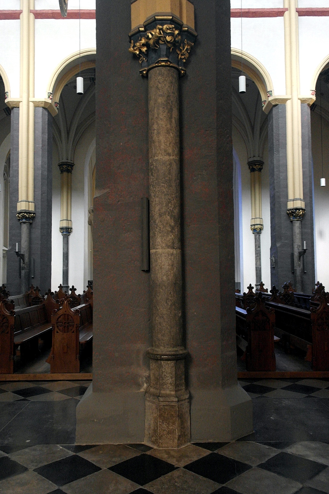 View of a 11th-century Romanesque pier between the south aisle and the nave of the Basilica of Saint Servatius in Maastricht, the Netherlands.